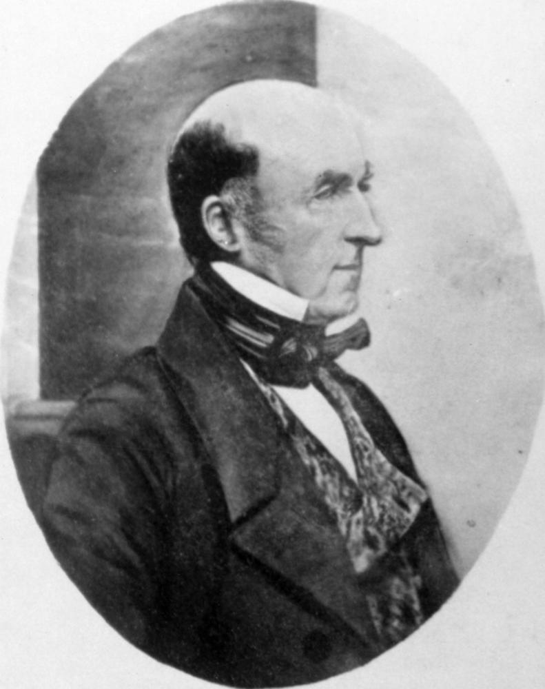 Admiral Phillip Parker King. Photograph of Admiral Phillip King aged 64. Philip Parker King, in addition to being a pastoralist, became an eminent Australian born Rear Admiral in the British Navy and an important NSW Colonial Government official. He was also commissioner of the Australian Agricultural Company 1834-44.